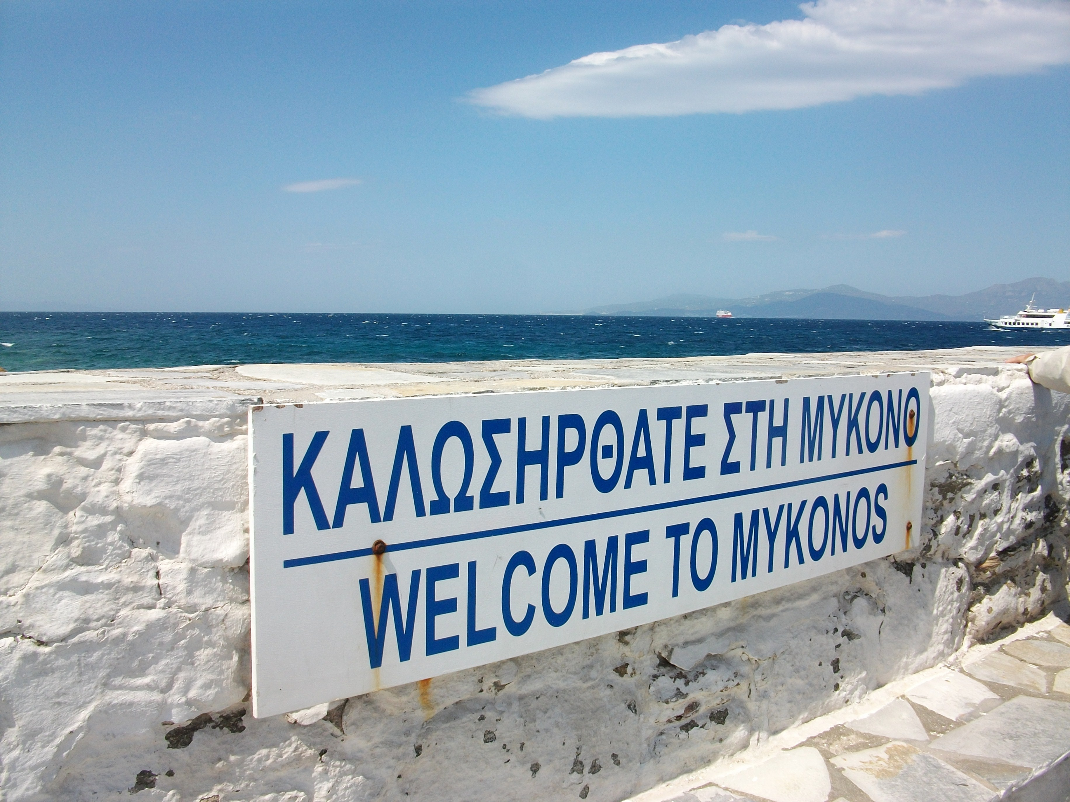 Sign "Welcome to Mykonos"